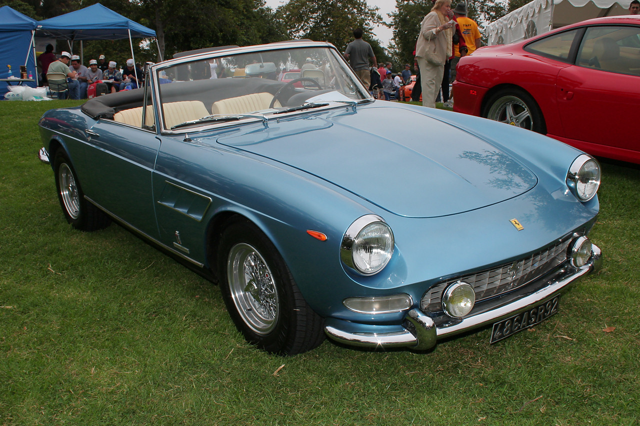 This is a picture of a vehicle (name of it is on the file name).